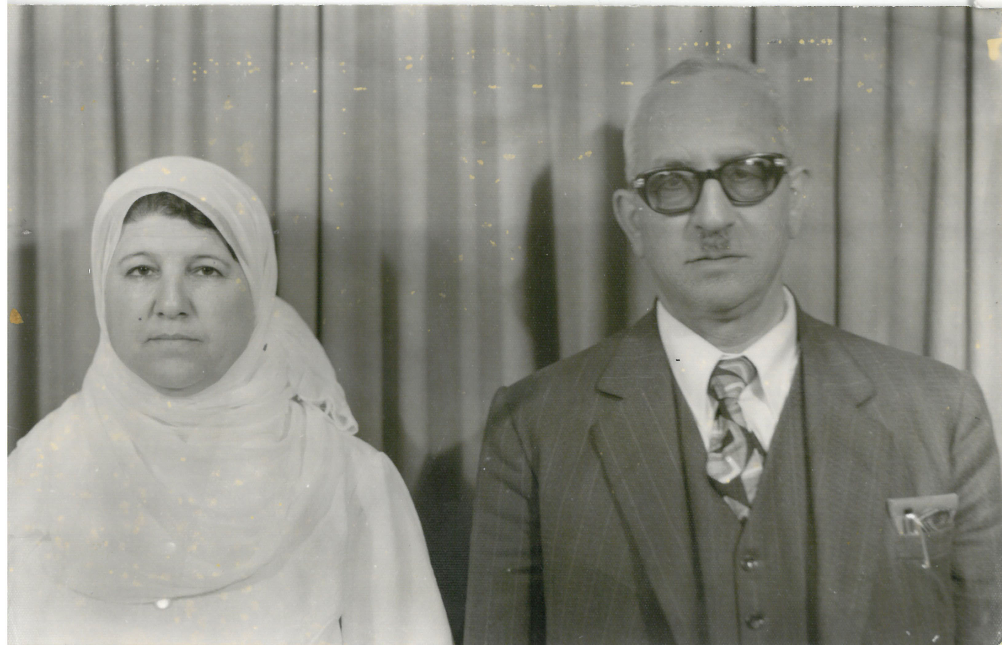 والدي حيدر مراد